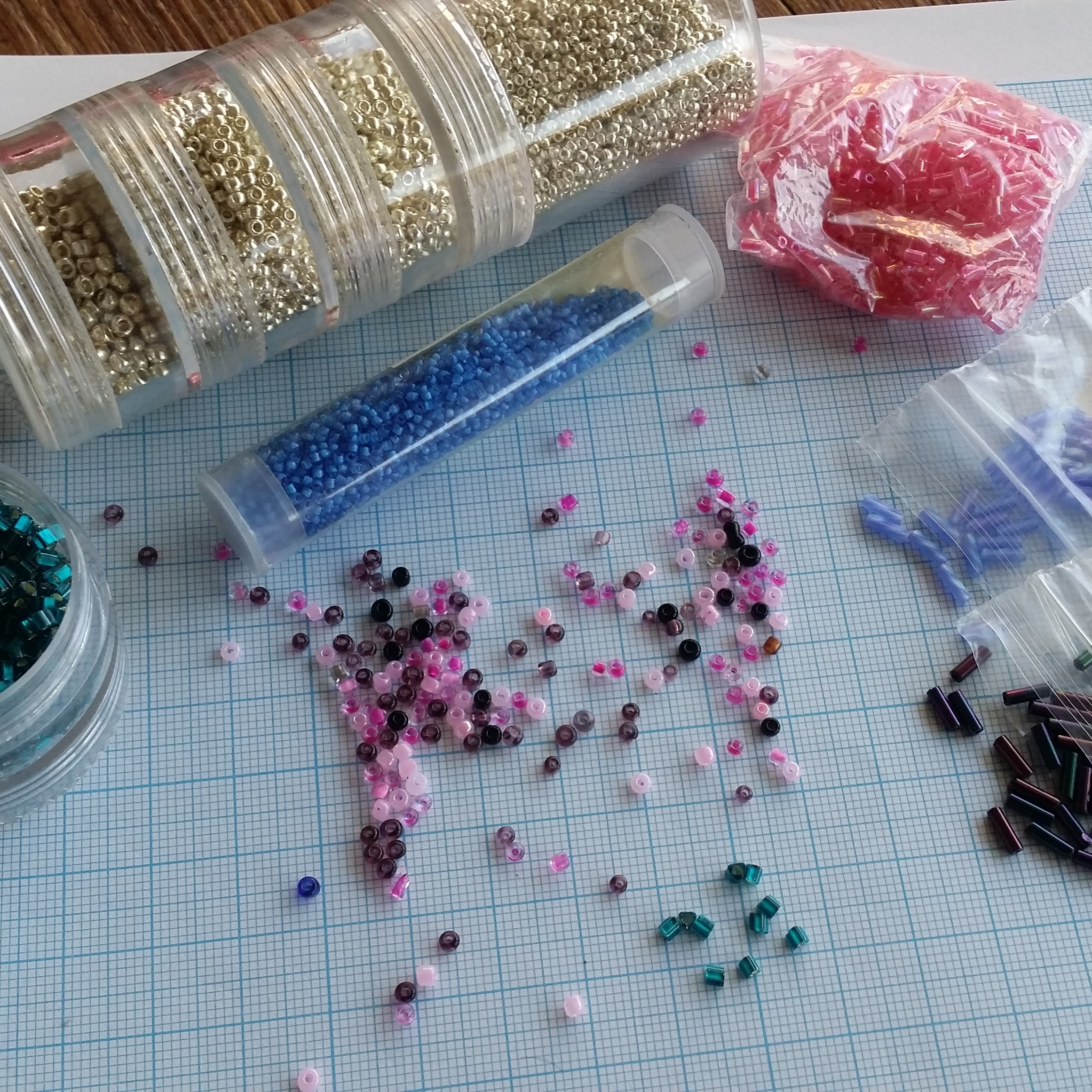 Different sizes and shapes of beads.